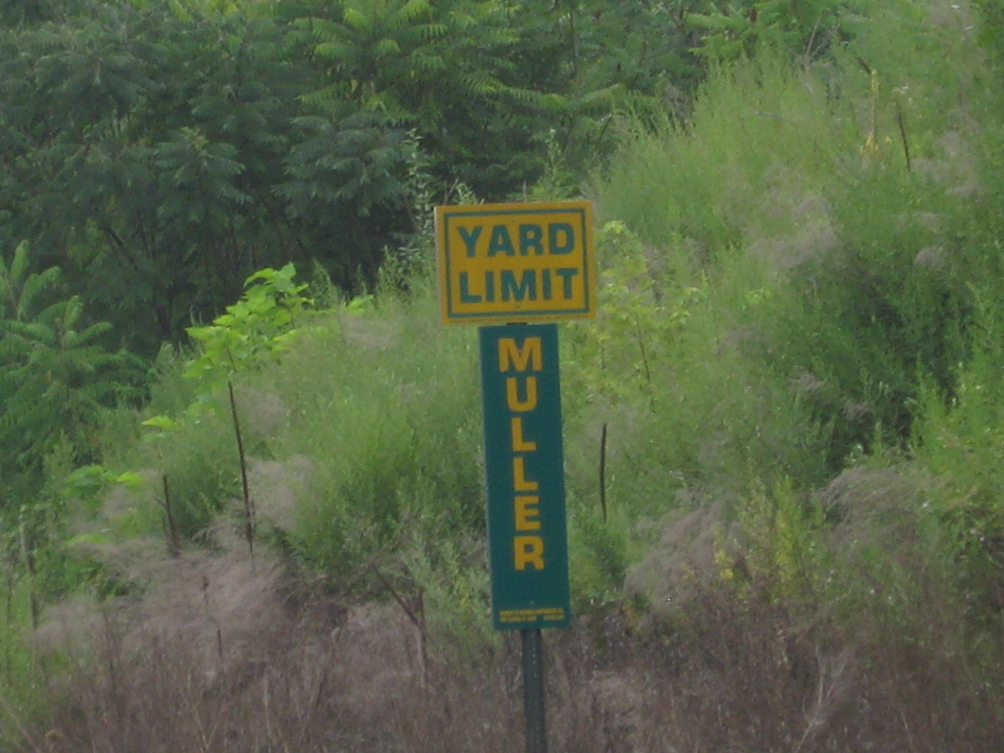 Duryea yard north entrance Yard Limit Sign about 75 feet from Coxton Road -- view looking NE to SW into NE entrance (41°20′44″N 75°46′49″W / 41.34569°N 75.780253°W) of Pittston (eastbank) Wye trackage. Descending trackage from Phoenix St., Duryea road crossing at the cemetery (jct Railroad St. and Phoenix St) is upbank to the right (Weed covered retaining wall here), whilst low road is off camera, down and left. Reading Blue Mountain and Northern now operates the yard.